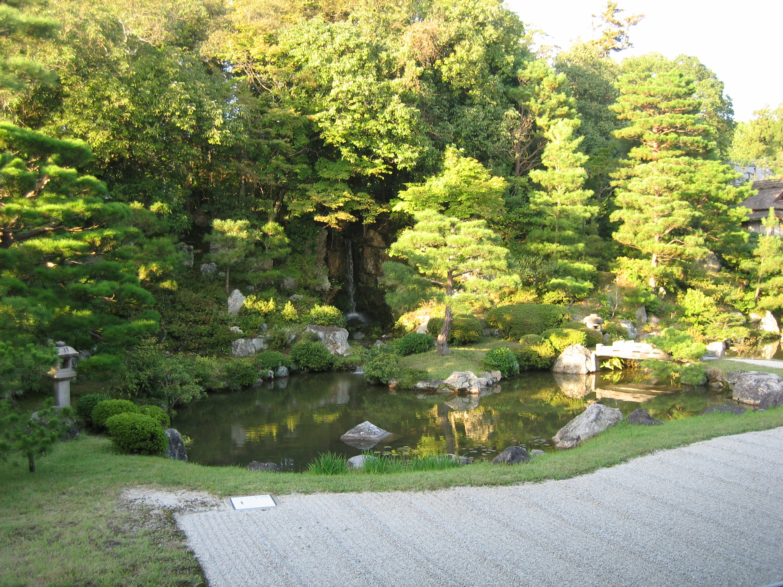 I took this photo at Ninnaji in Kyoto on October 16th, 2005. I'm not sure how to describe it other than "a garden at Ninnaji." This is the 'North Garden'. It's in the chisen-kansho or 'pond-viewing' style. The Hito-tei tea house is visible amongst the trees. Brian Adler 13:46, 24 October 2010 (UTC)